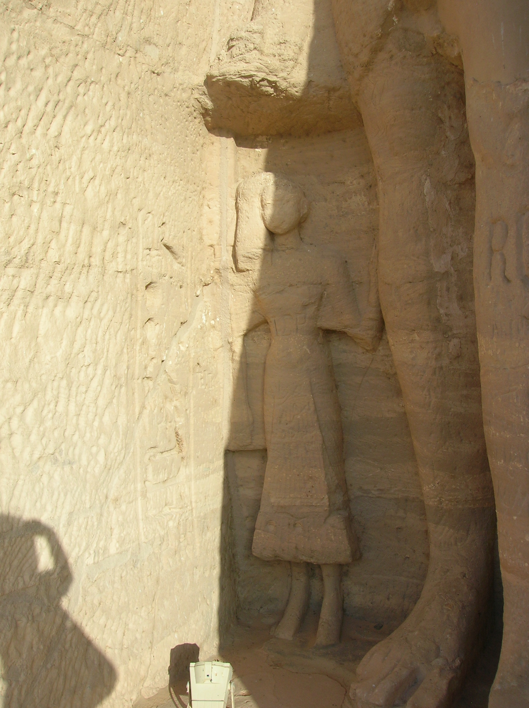 A statue of Prince Parewerhenemef, the second son of Pharaoh Ramesses II and Queen Nefertari, at Abu Simbel (facade of smaller temple).